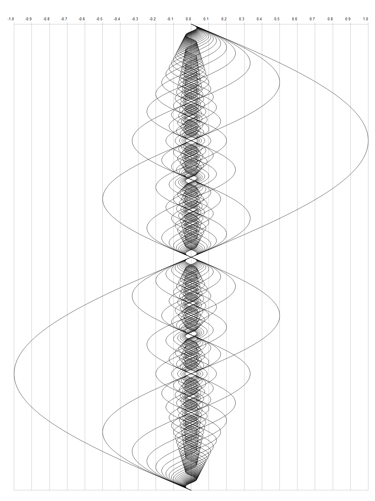 First 32 harmonics of a string: frequency = harmonic/1 and amplitude = 1/harmonic (the third harmonic has a frequency 3 times faster than the fundamental and an amplitude 1/3 of the fundamental's amplitude).